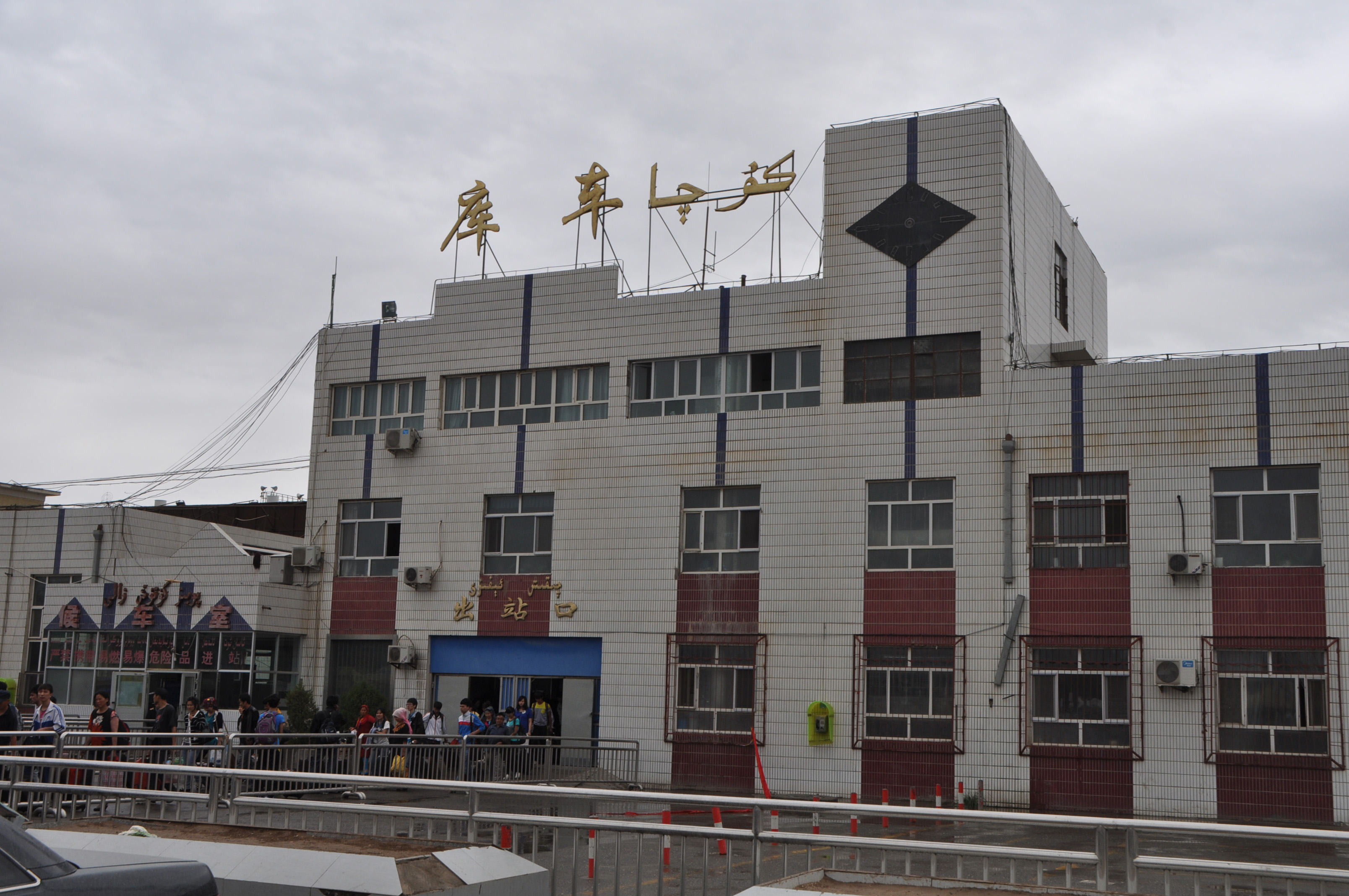 Kuche (Kuqa) Railway station, on Southern Xinjiang railway, China